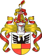 Coat of arms of Hildesheim, Germany